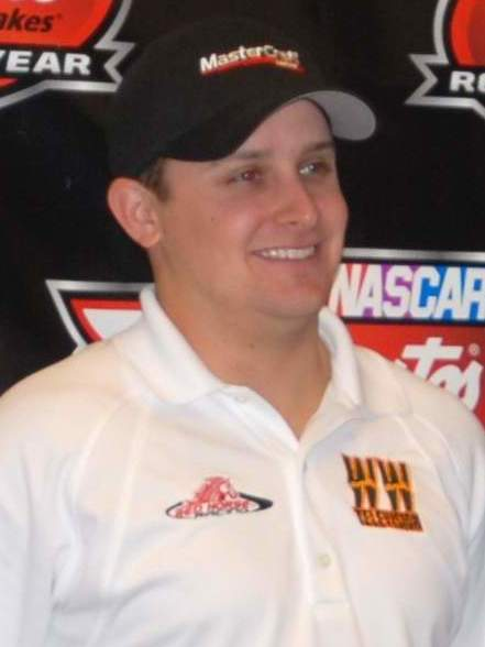 The 2010 NASCAR Rookie of the Year class at the National Motorsports Press Association hall of fame event. Photos by Ted Van Pelt. Licensed Creative Commons